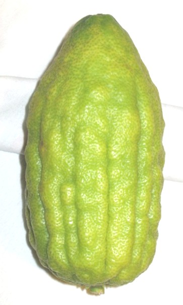 Yanover Etrog